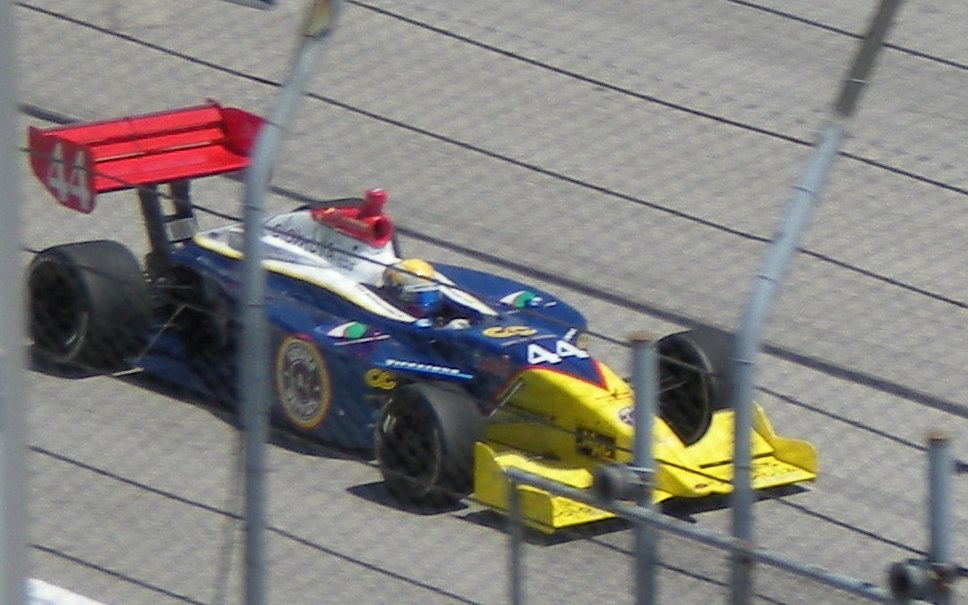 Gustavo Yacaman racing at the Milwaukee Mile